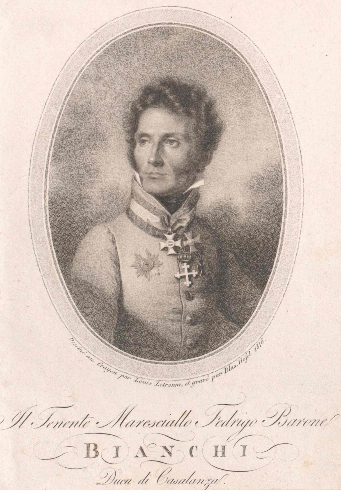 Lithograph of Fredrigo Baron Bianchi, duke of Casalanza